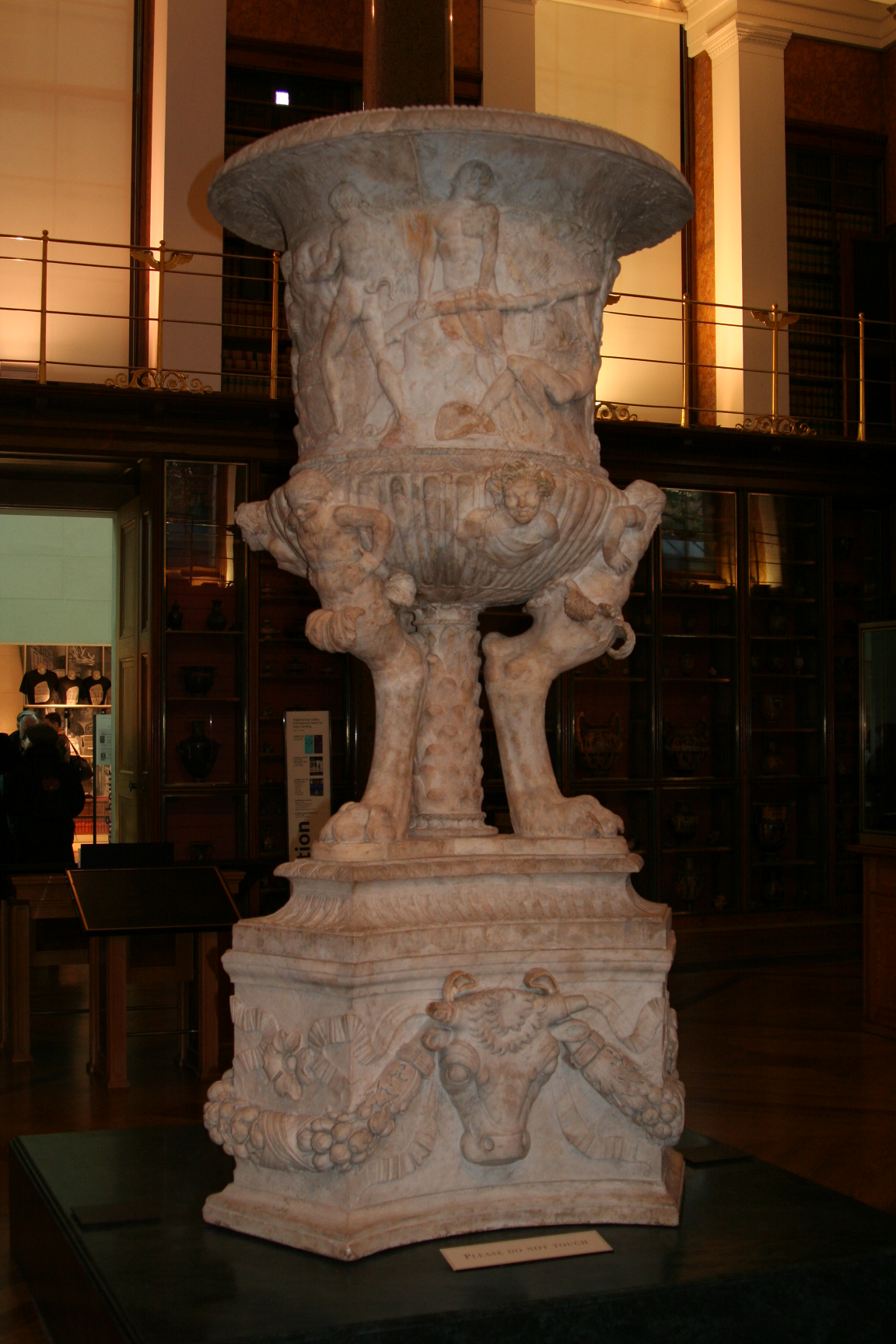 Photos taken in the Roman Gallery - British Museum